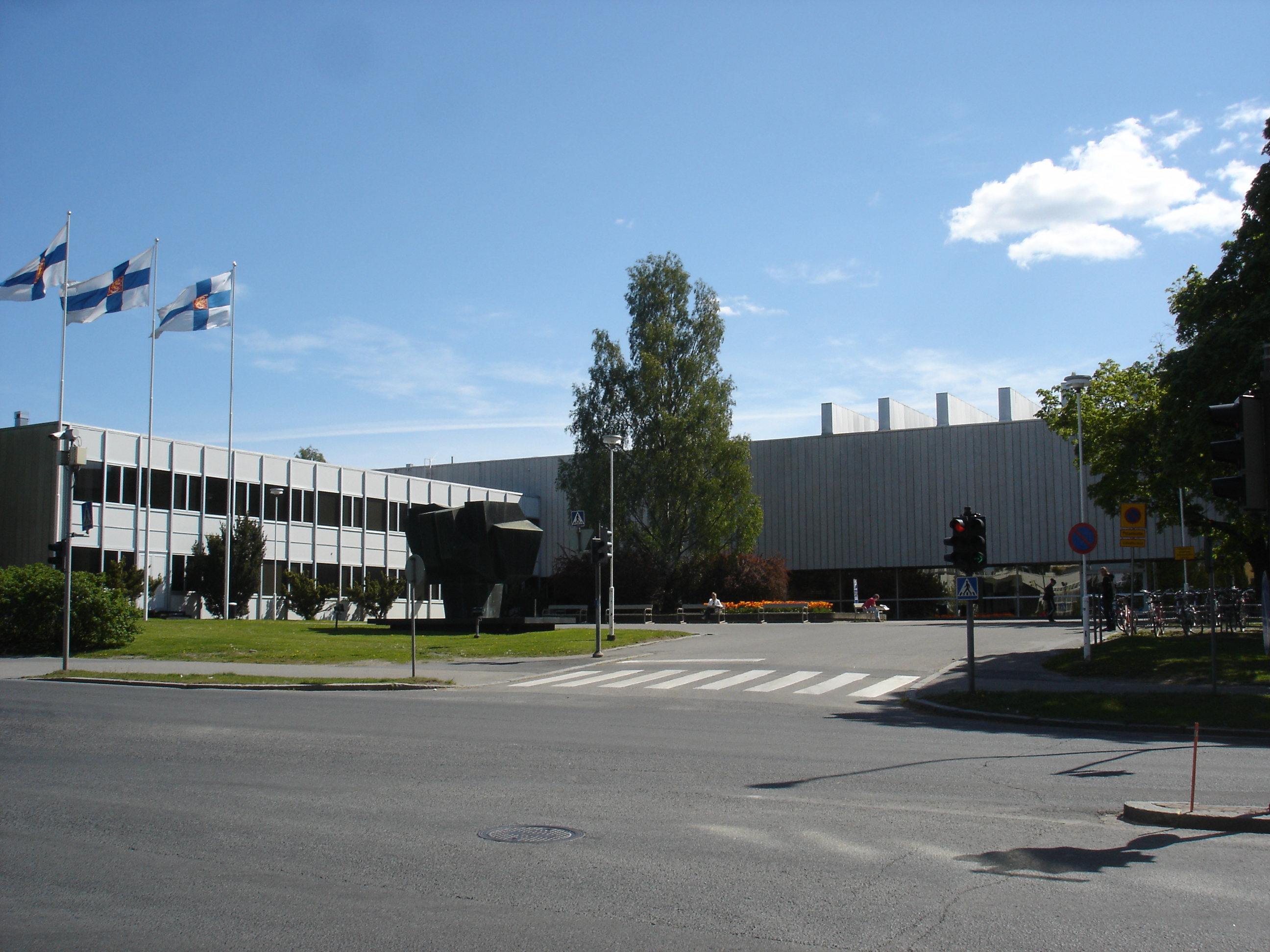 University of Tampere, main building.